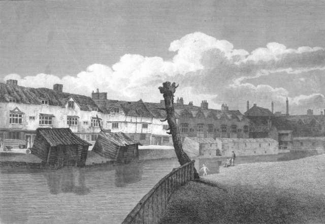 A drawing and map of Jacob's Island, a notorious slum from Victorian England, today a part of Bermondsey, London